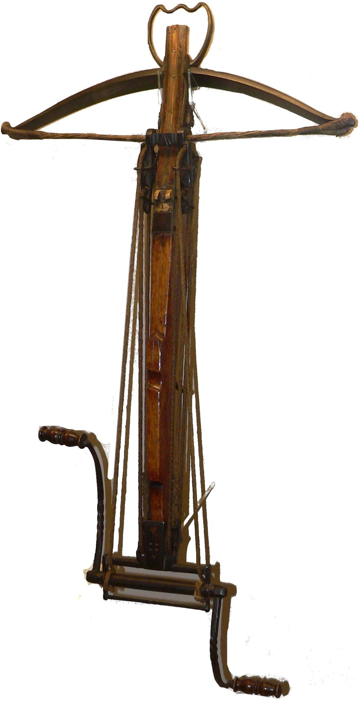 Heavy crossbow, Château de Morges museum, Switzerland.